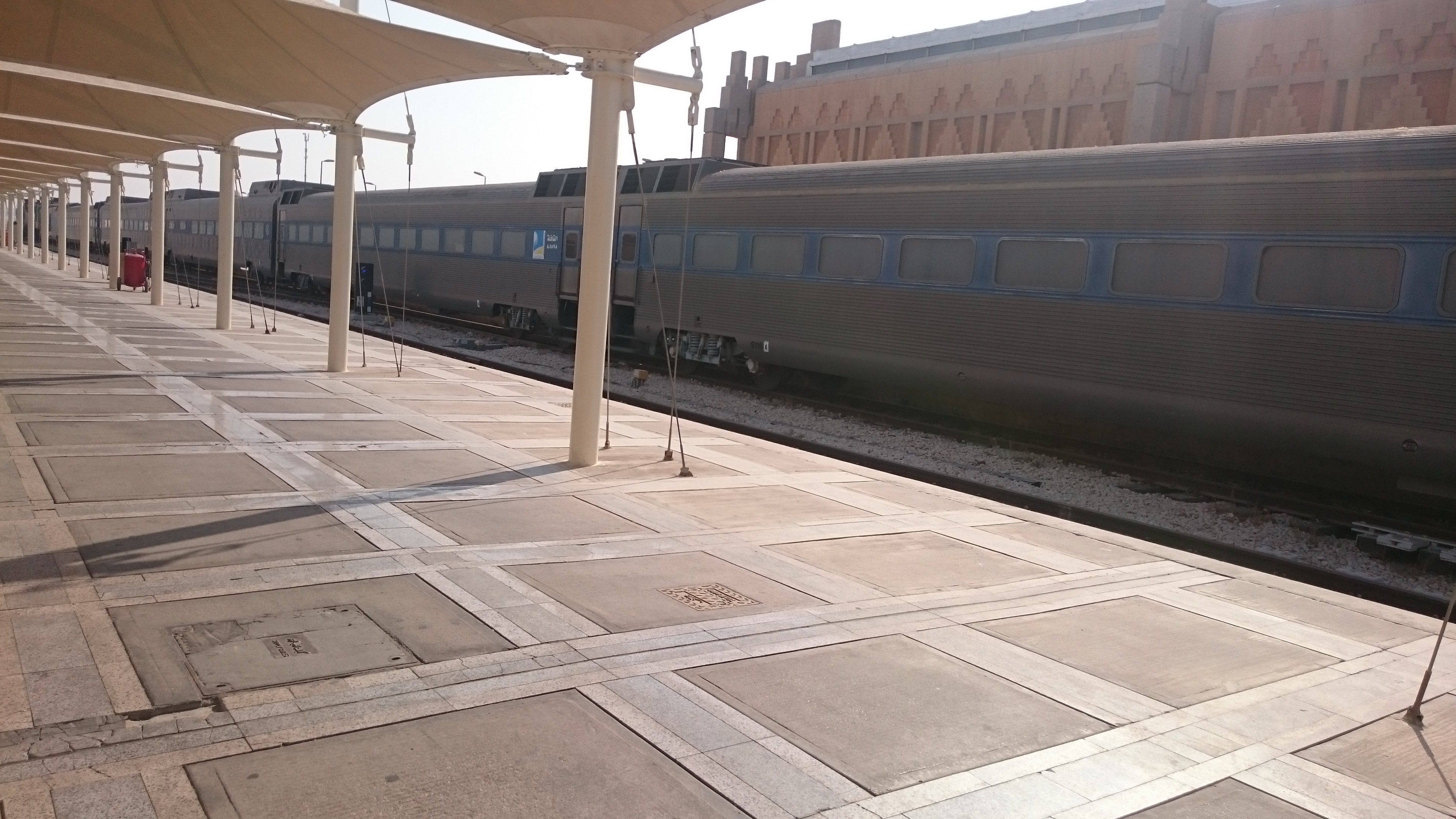 Train at Dammam